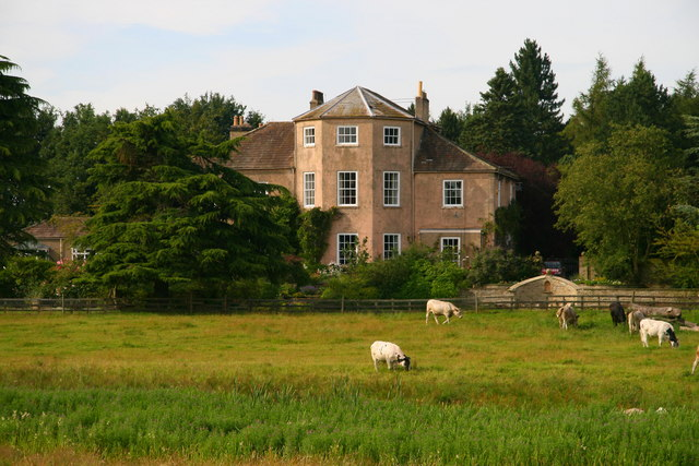 Firby Hall. Firby Hall in the hamlet of Firby south of Bedale.